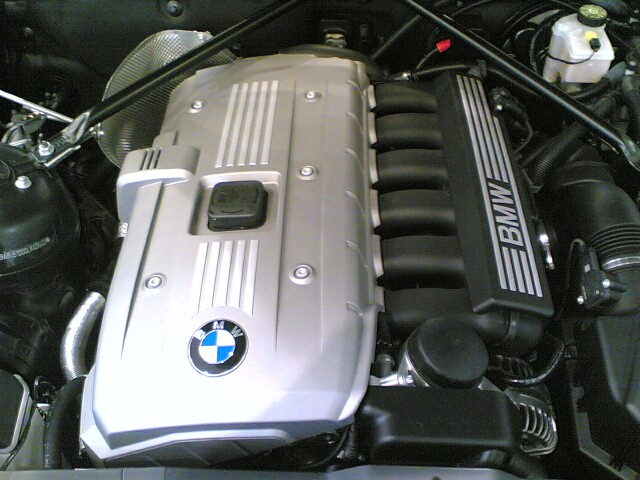 BMW Z4 Engine. N52B30 engine 195kW/315Nm under the hood of Z4 3.0si Roadster. The long hood makes the whole engine fully visible.